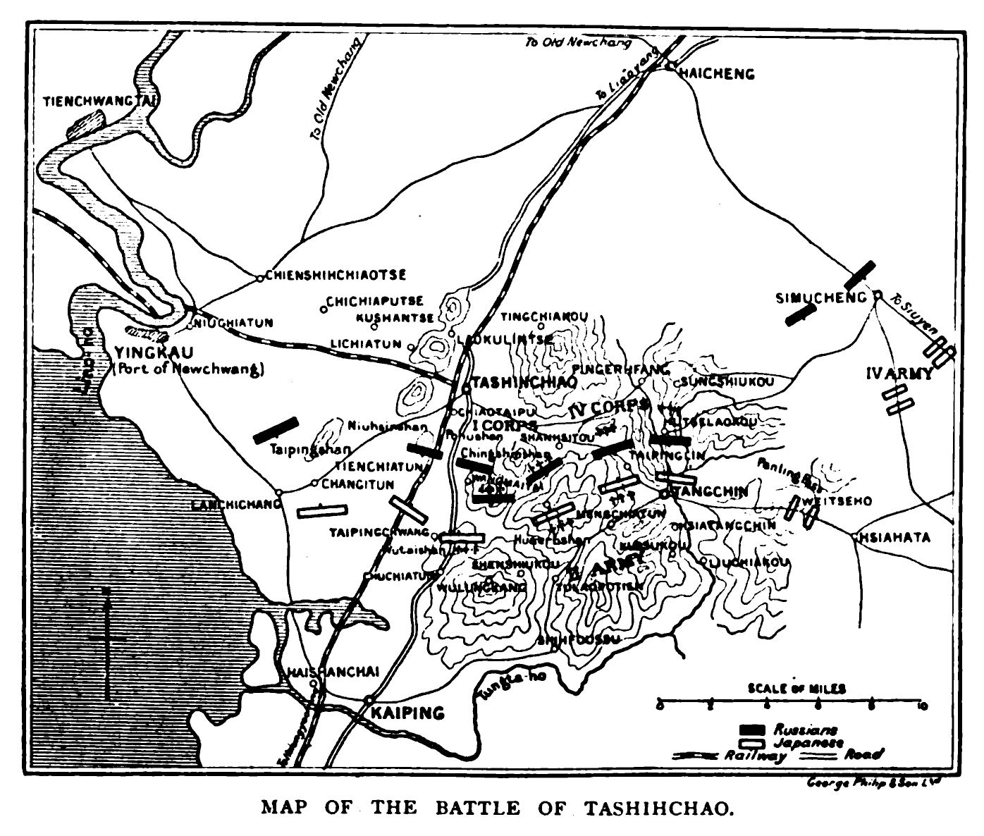 Map of the Battle of Tashihchiao, 24./25. July 1904